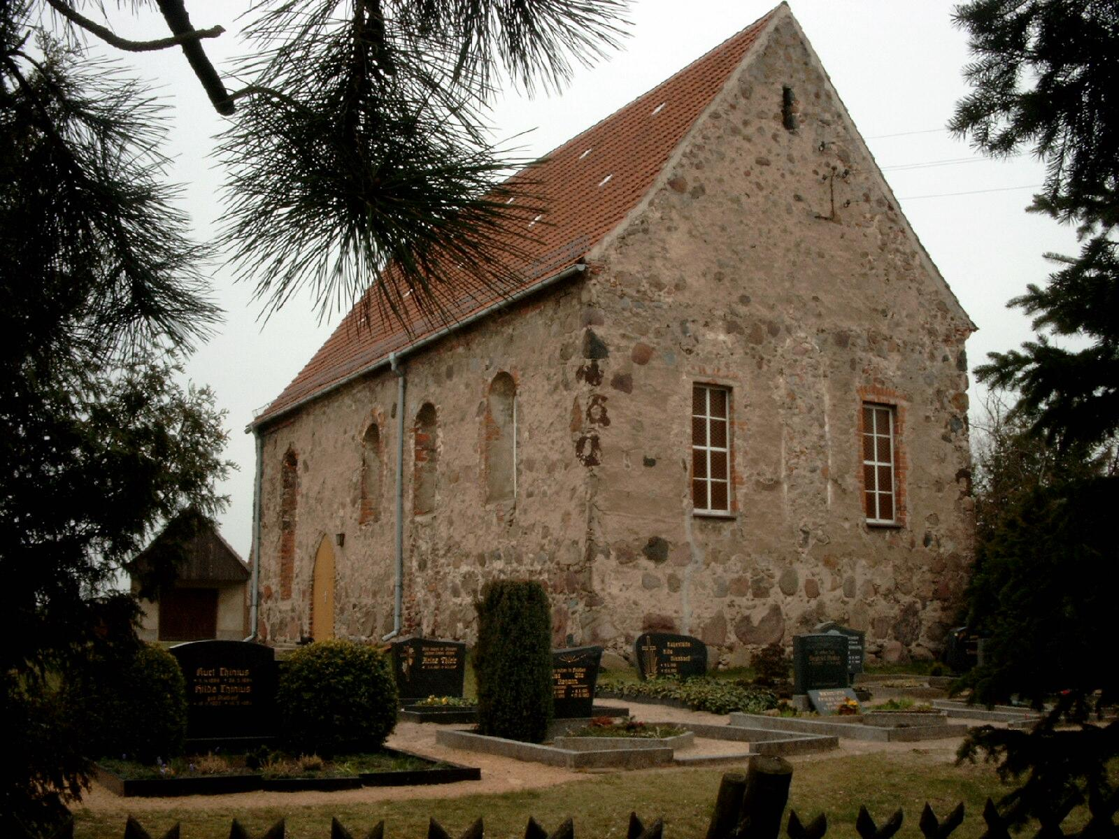 Village church of Waltersdorf, Gem. Niederer Fläming, Lkr. Teltow-Fläming, Brandenburg, Germany, view from west